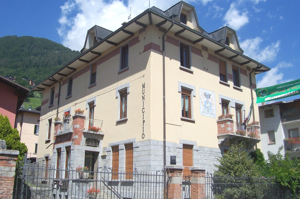 Town hall. Vezza d'Oglio, Val Camonica, Italy